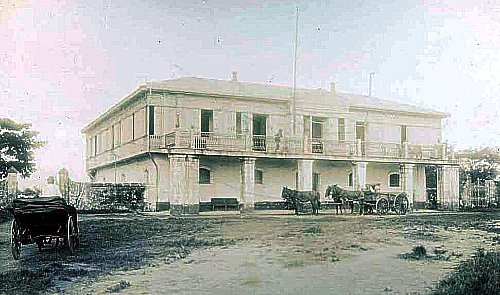 Photo taken in 1900.